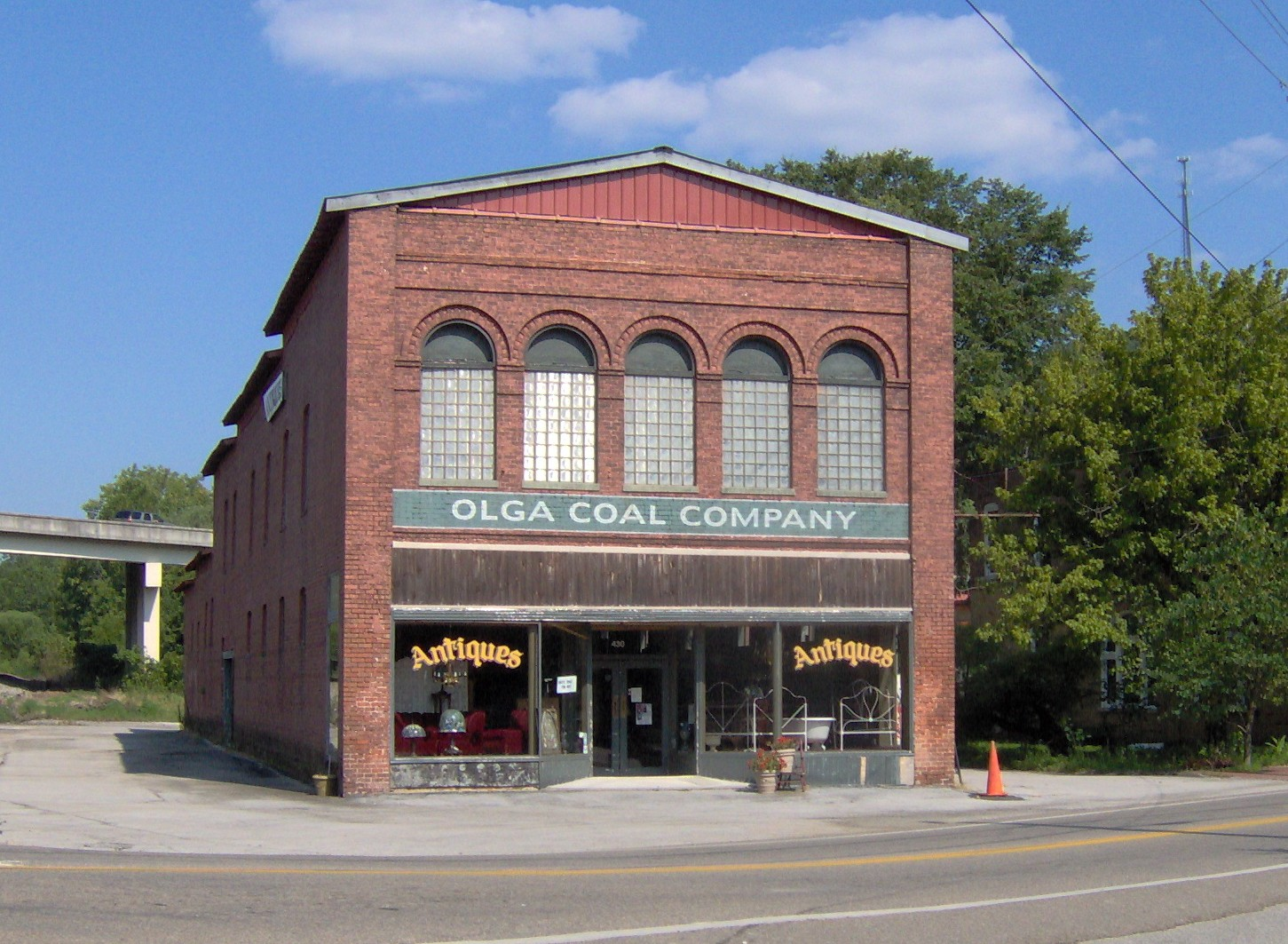 The H. Sienknecht Store in Oliver Springs, Tennessee, in the southeastern United States. The store was built in 1901-2 by Dr. Henry Sienknecht, a medical doctor and descendant of one of the German families that settled in Wartburg, Tennessee in the mid-1800s. "Olga Coal Company" was painted on the building's facade for the 1998 movie, October Sky, which was filmed in the area. The Olga Coal Company was actually based in West Virginia.